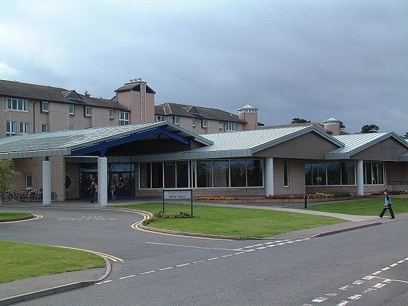 New Hall - St Andrews University. One of the more modern halls of residence belonging to this ancient university.